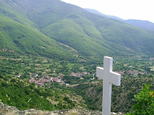 The village of Brajčino in Macedonia